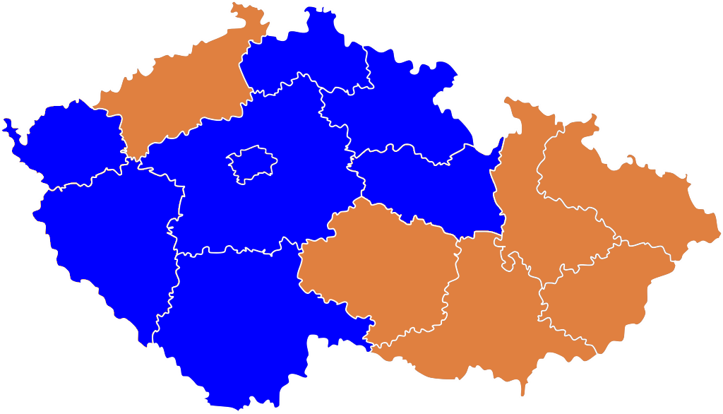 Leading parties of the 2006 Czech legislative election by region